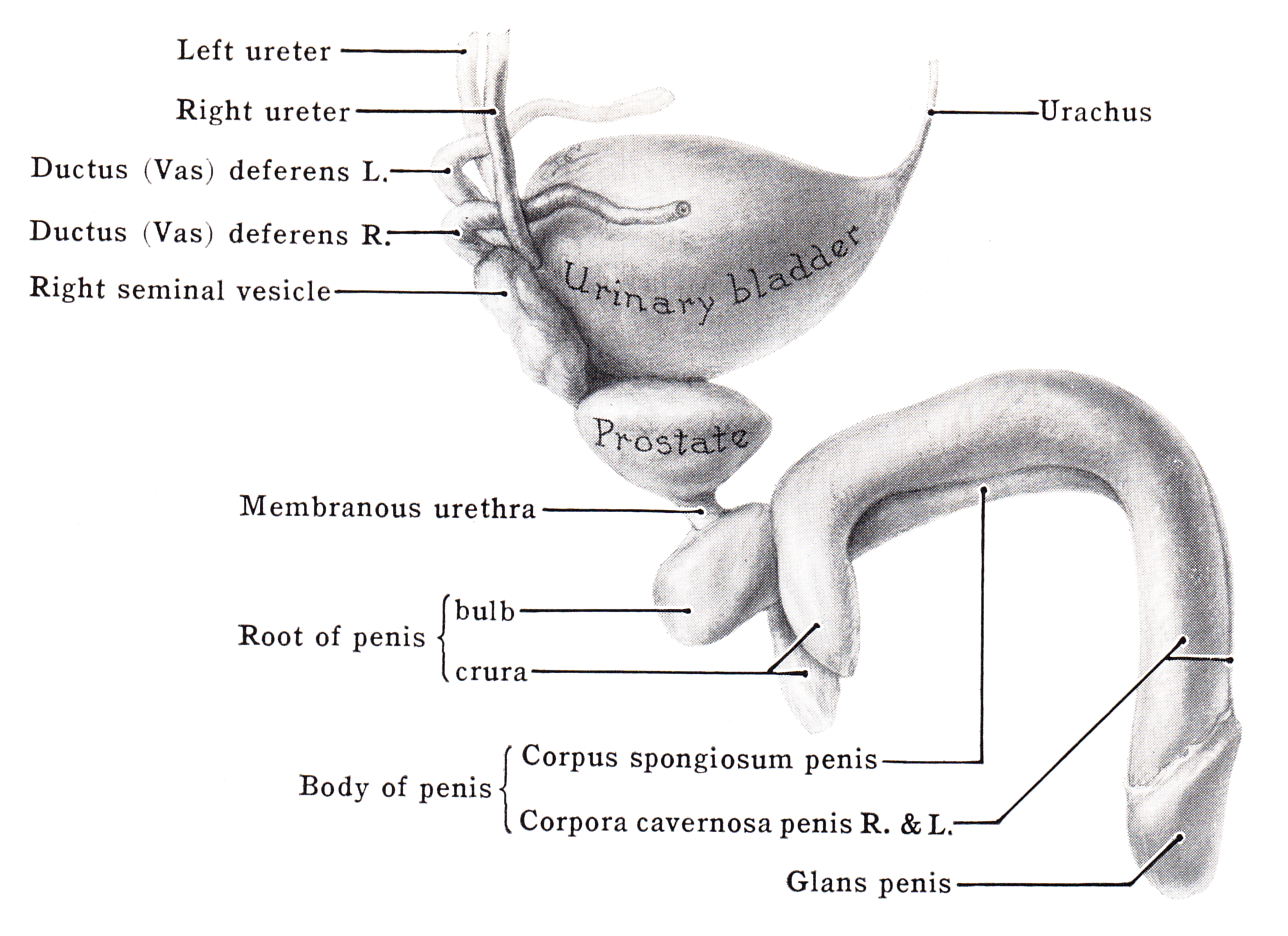 An anatomical illustration from An atlas of anatomy/by regions 1962